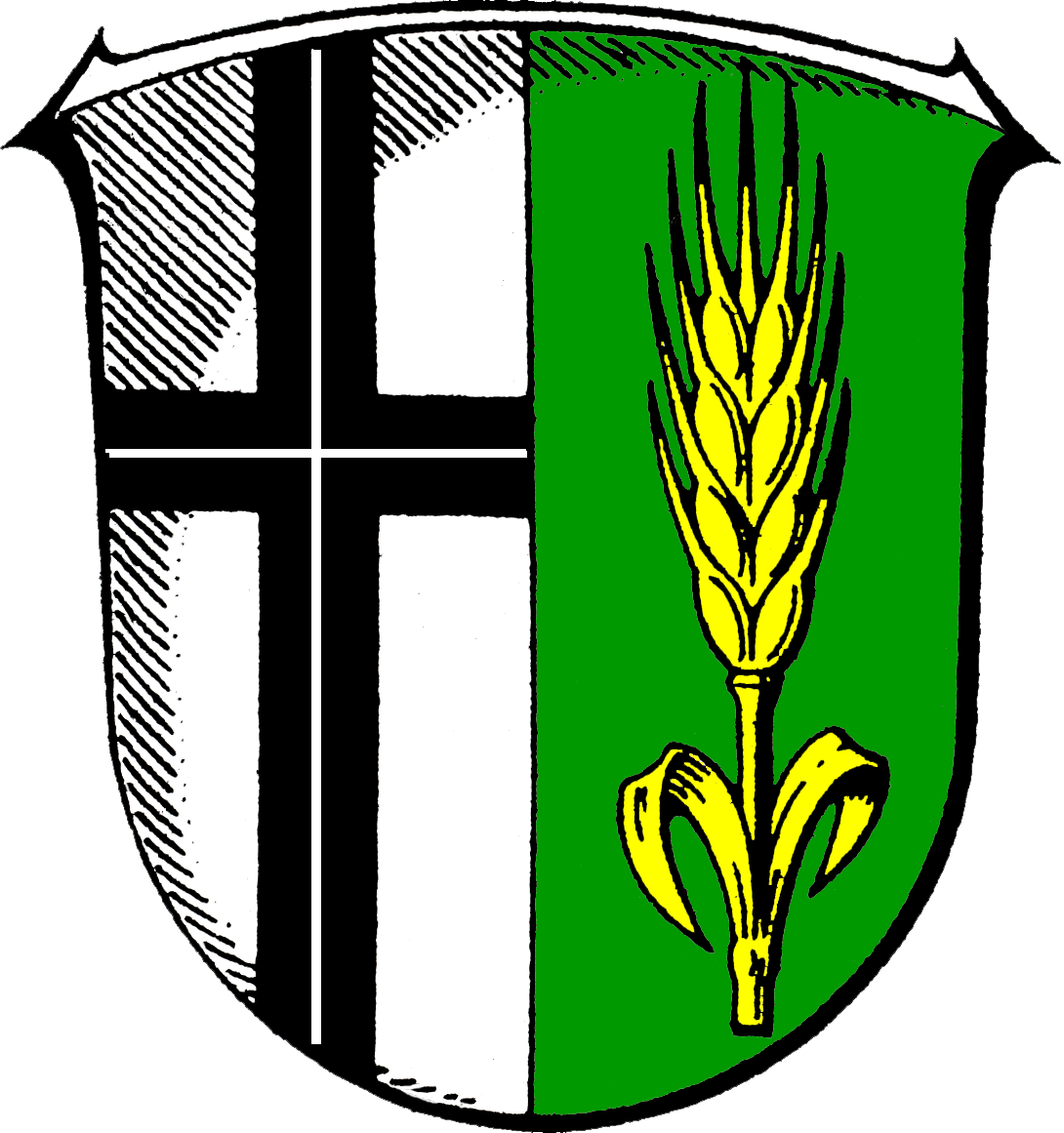 Coat of Arms of Hosenfeld